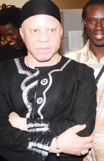 "Bureau of African Affairs Hosts Salif Keita, Prominent Malian Musician. The Department of State, Washington, DC. June 28, 2006. Assistant Secretary Jendayi Frazer smiles, as Salif Keita and a member of his band look on, during the festivities hosted in their honor." Note, Cropped image. Salif Keita only full face.